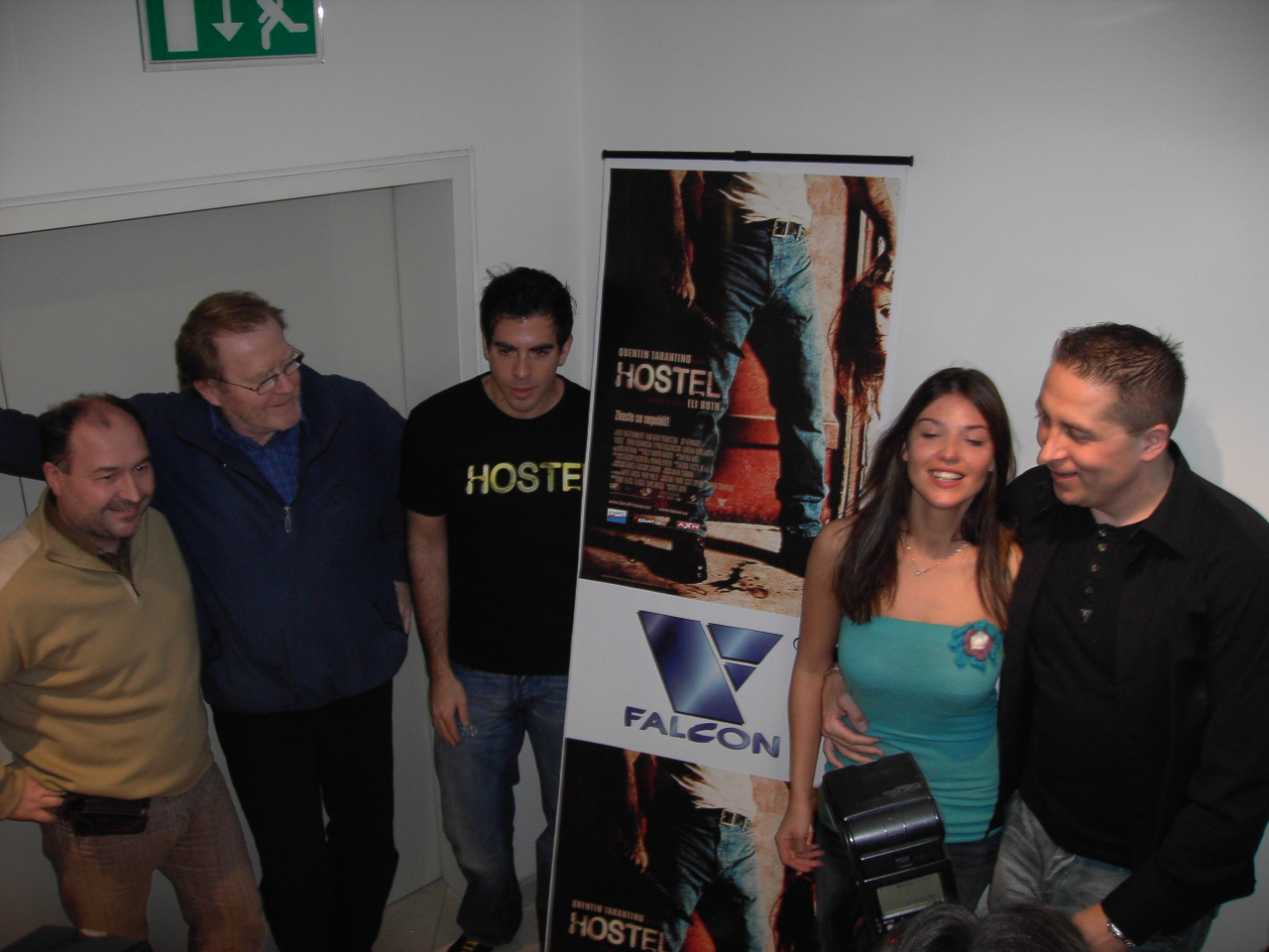 The cast of Hostel at the Czech premiere of the movie: Michal David, Jan Vlasák, Eli Roth, Barbara Nedeljáková, Philip Waley (l.t.r.)